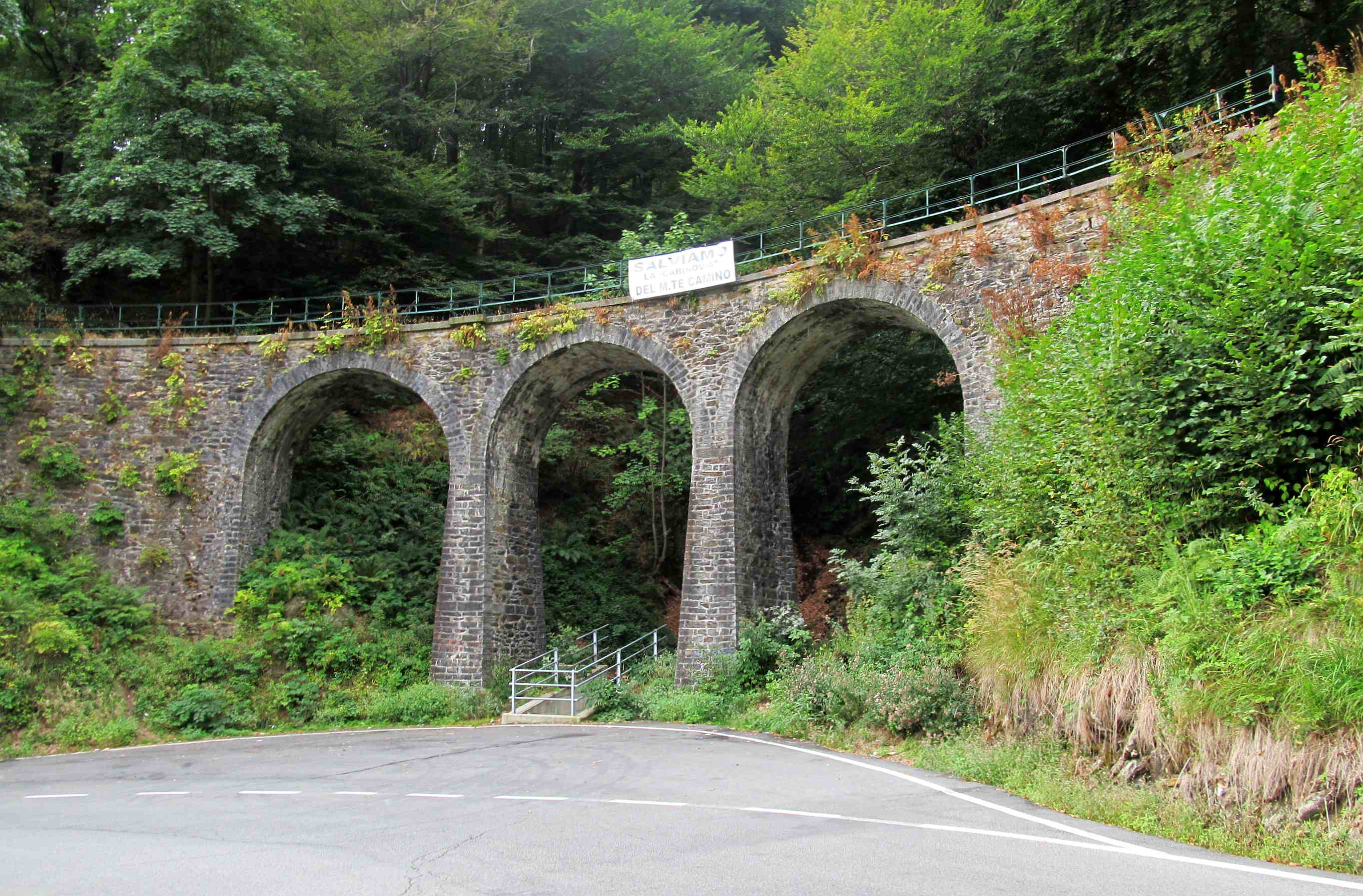 The former tramway Biella-Oropa between Favaro and Oropa, seen from SP 144 (Biella, Italy)